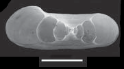 Photo of cross section of apertural view of the shell of Biomphalaria tenagophila. Scale bar = 3 mm. Locality: near Răbăgani, Romania, Eastern Europe (46°45´1.3´´N, 22°12´44.8´´E) in a hypothermal spring. Date: spring 2005, autumn 2006, and autumn 2007.